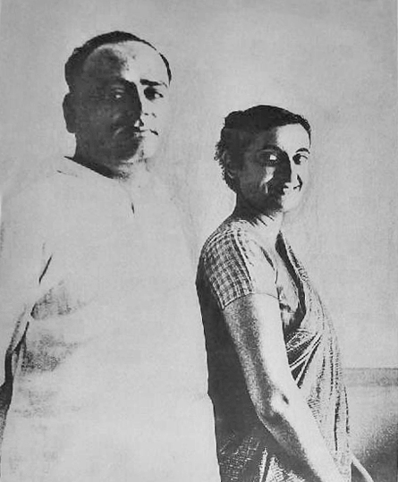 Portrait of Feroze and Indira Gandhi at the Indira Gandhi Memorial Museum in New Delhi. This is the Image at the time around when Indira had married Feroze Gandhi in 1942. According to The Indian Copyright Act, 1957 (Chapter V Section 25), all photographs and sound recordings enter the public domain after sixty years counted from the beginning of the following calendar year (ie. as of 2008, prior to 1 January 1948) after they were first published. Since this is a portrait of 1942 (before 1948), the Image is in the Public domain.